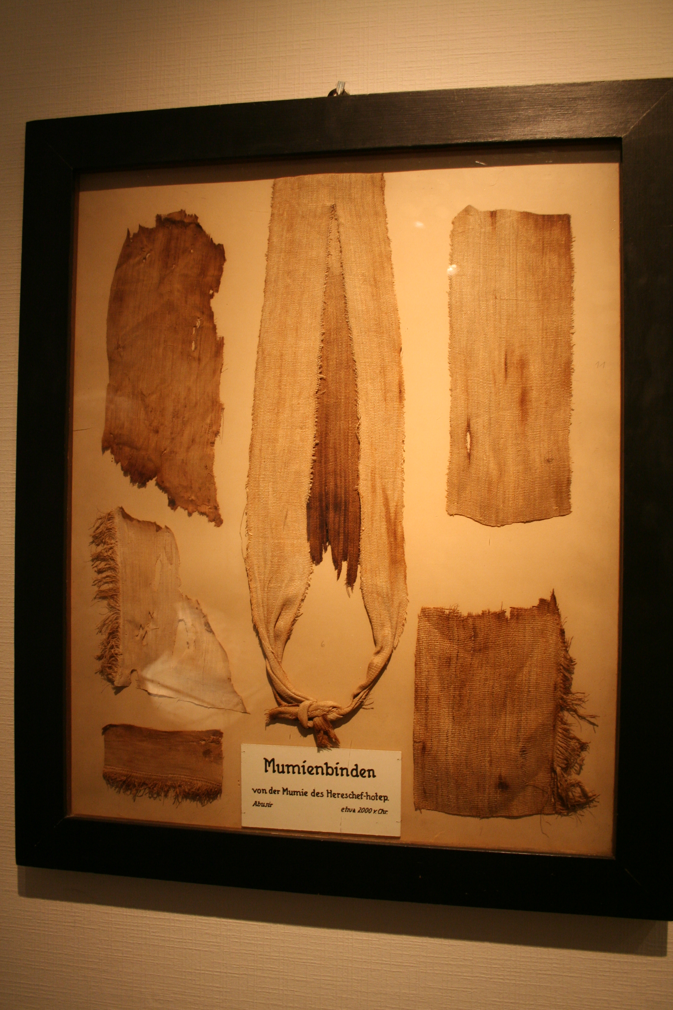 Mummy bandages from the tomb of Herishefhotep; Abusir, 9th/10th dynasty